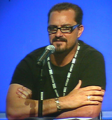 Chris Metzen at BlizzCon in 2007.